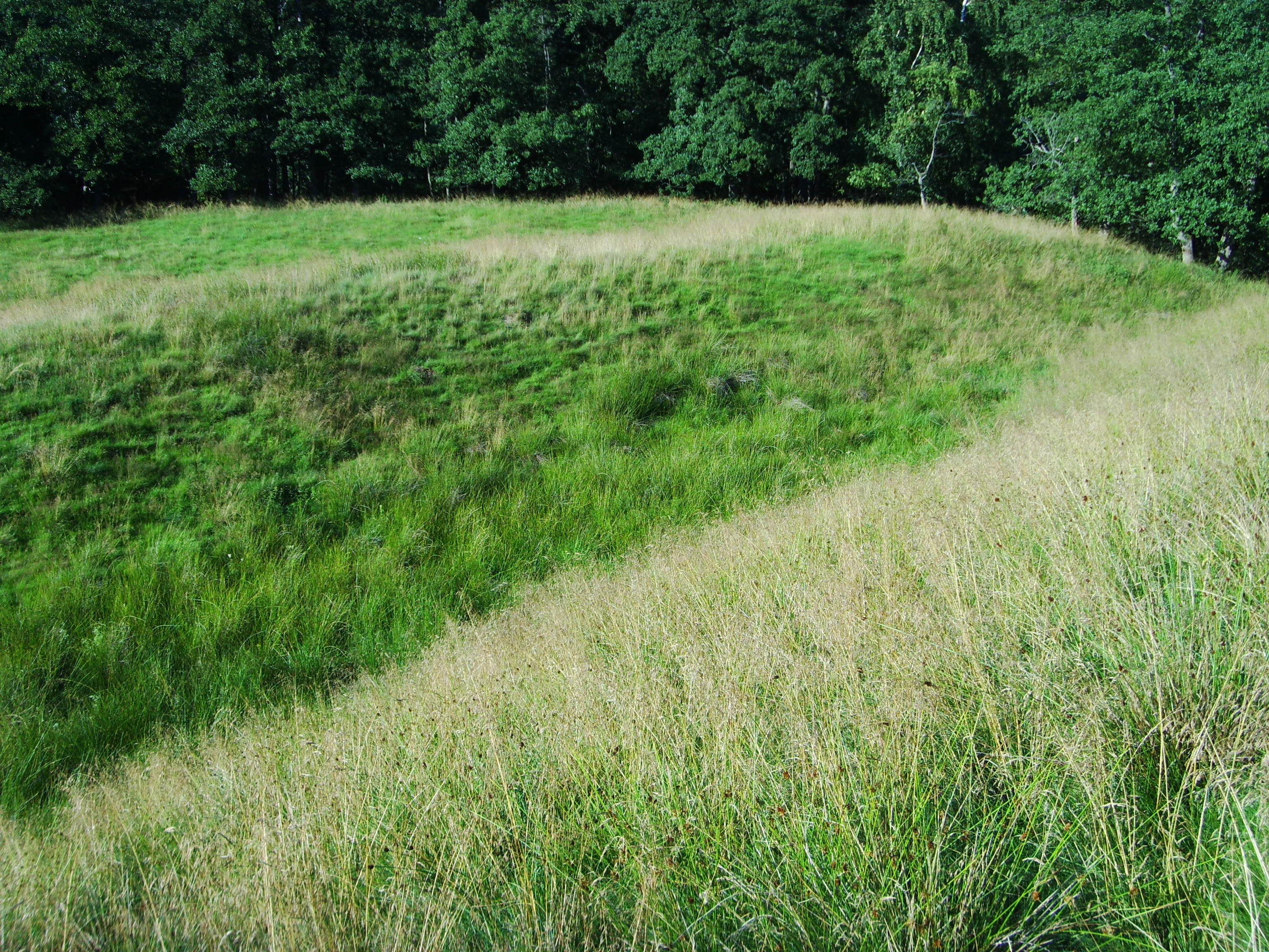 The ruins of the Middle Age castle "Stynaborg" outside Alingsås, Västergötland, Sweden.